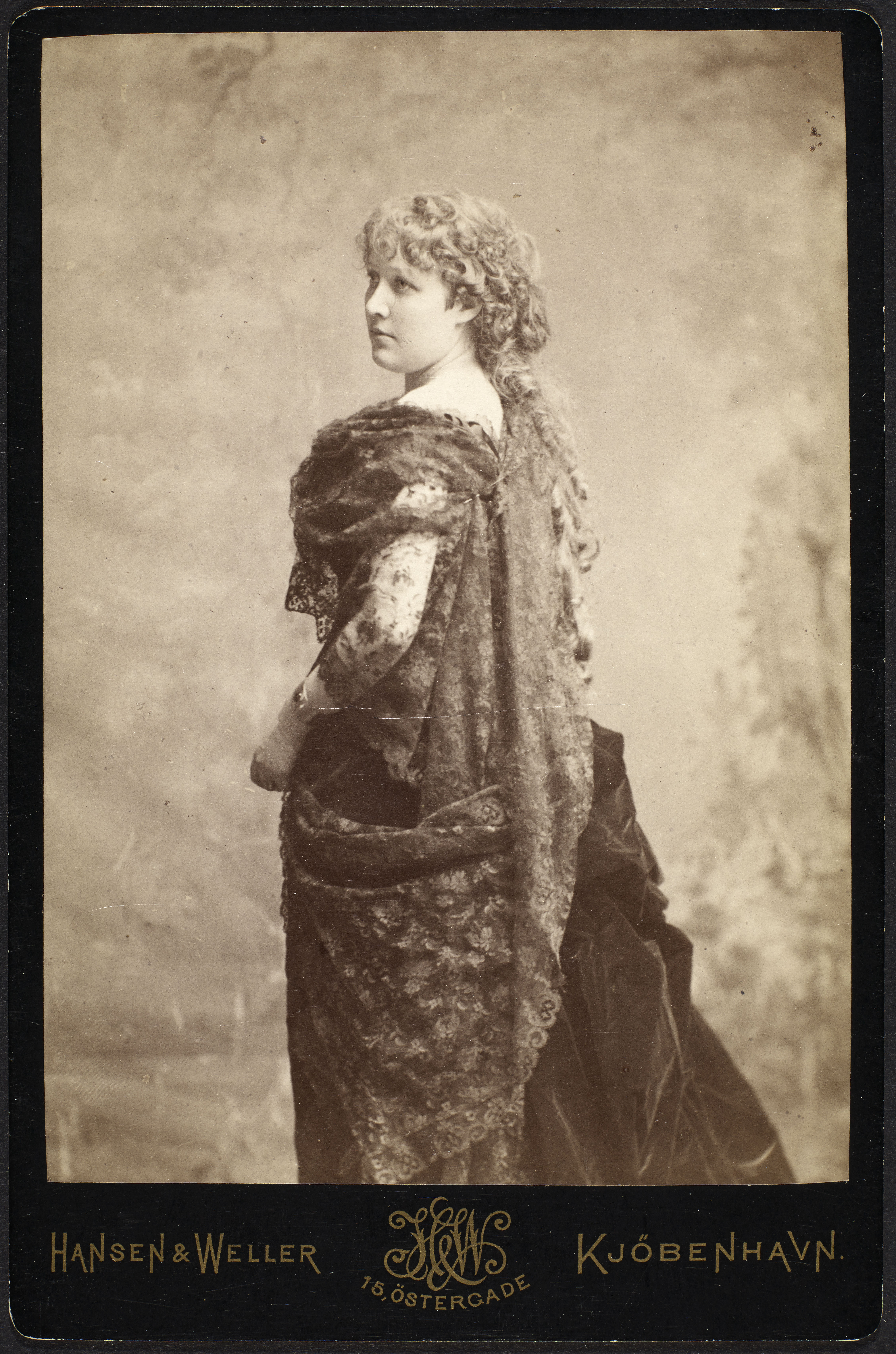 Augusta Lütken (05-10-1855 - 26-09-1910) Danish operasinger Photo dated 1887-90 1929_220